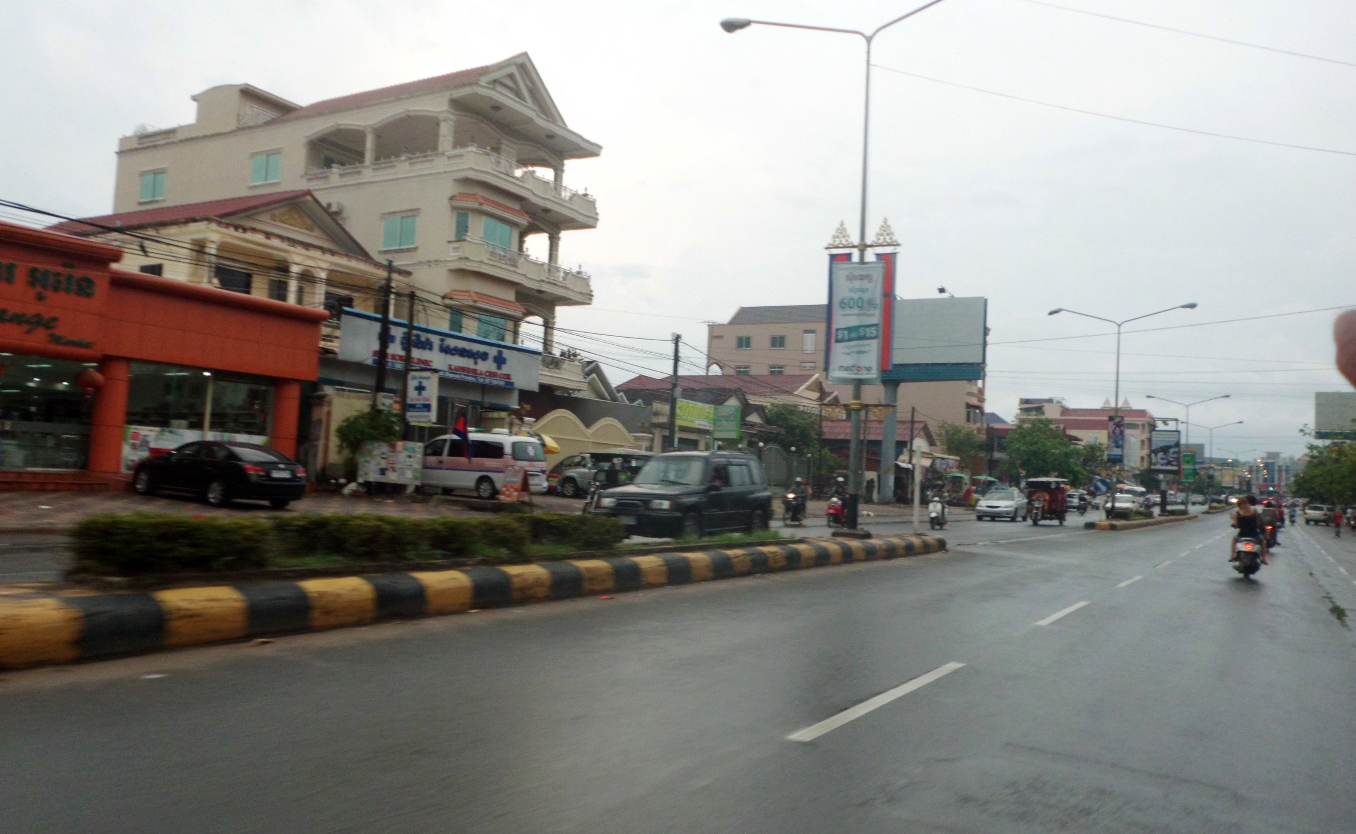 snapshot of Ekreach Road in Sihanoukville, Cambodia